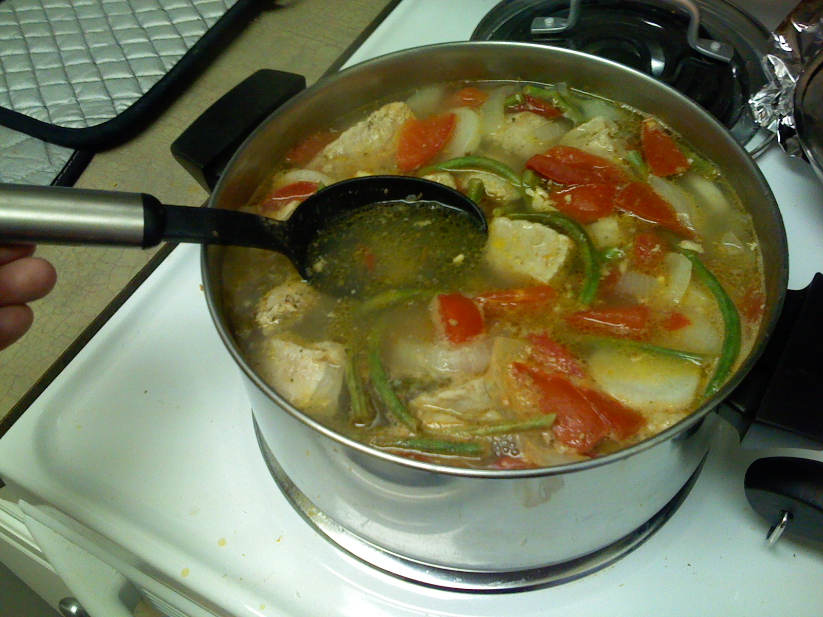 A Filipino stew, using tamarind and pork. Mmmm.